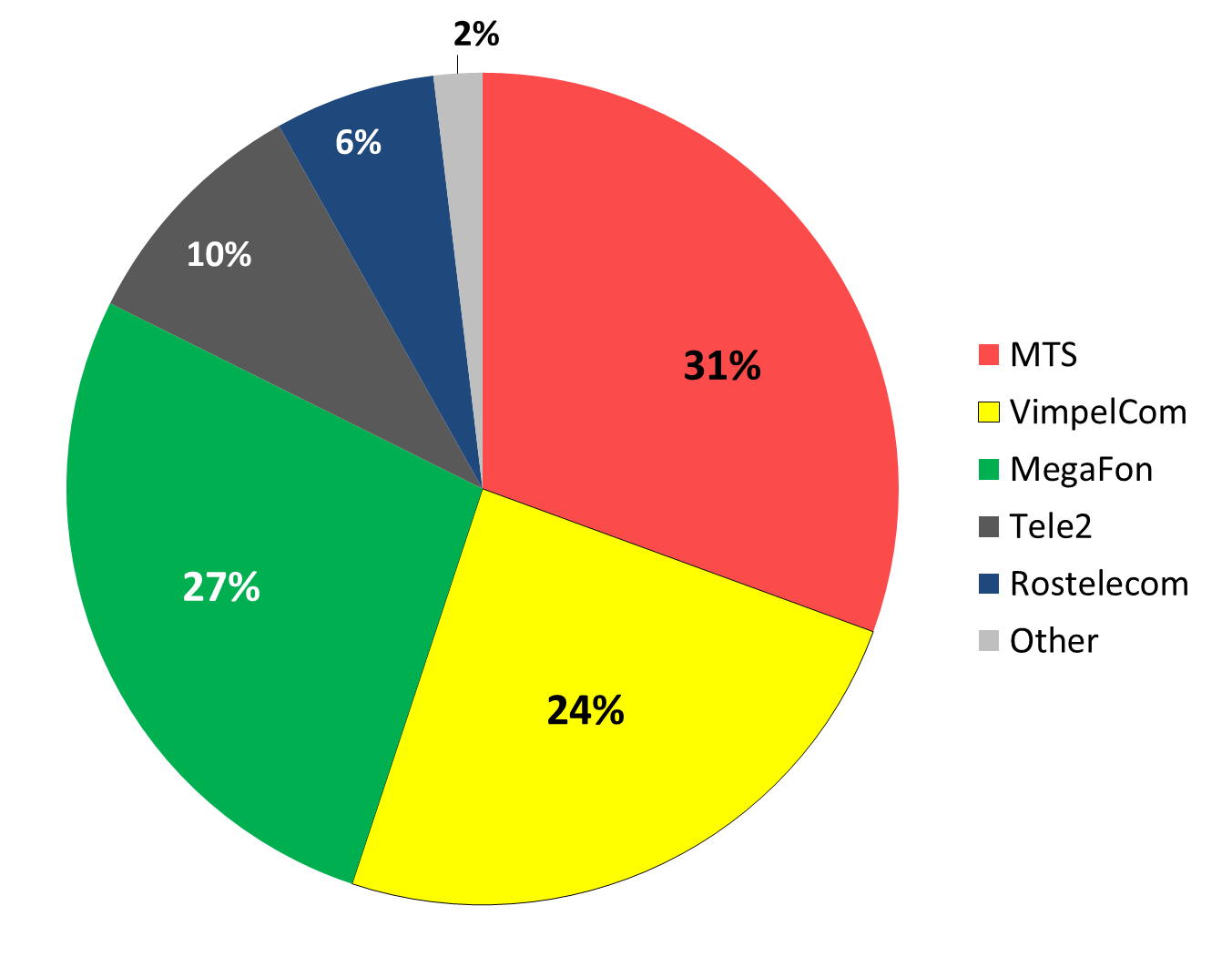 This pie-chart is drafted using data provided by AC&M Consulting ( and depicts mobile market Russia in terms of subscriber base.